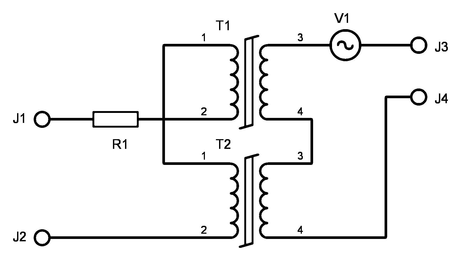 Series connected transductor, i.e. pair of identical transductor cores with identical, series connected load windings. This is one of the basic magnetic amplifier circuits.